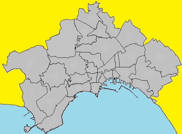 I 30 Quartieri di Napoli